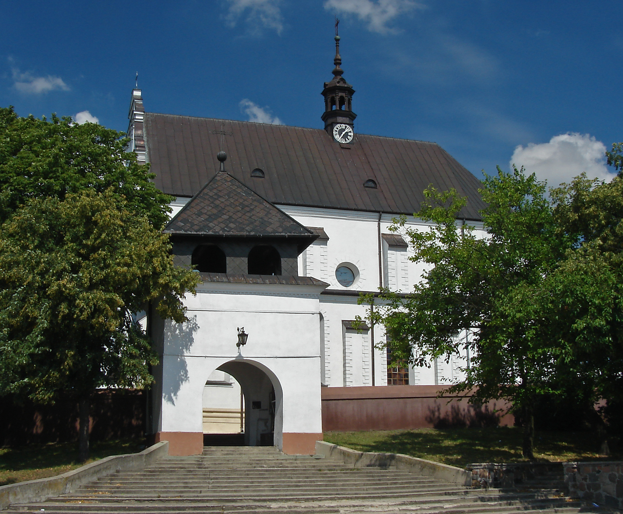 Church of St. Catherine in Poddębice, Poland